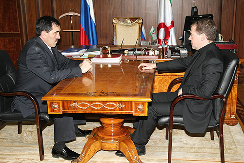 Dmitry Medvedev met with President of Ingushetia Yunus-Bek Yevkurov.